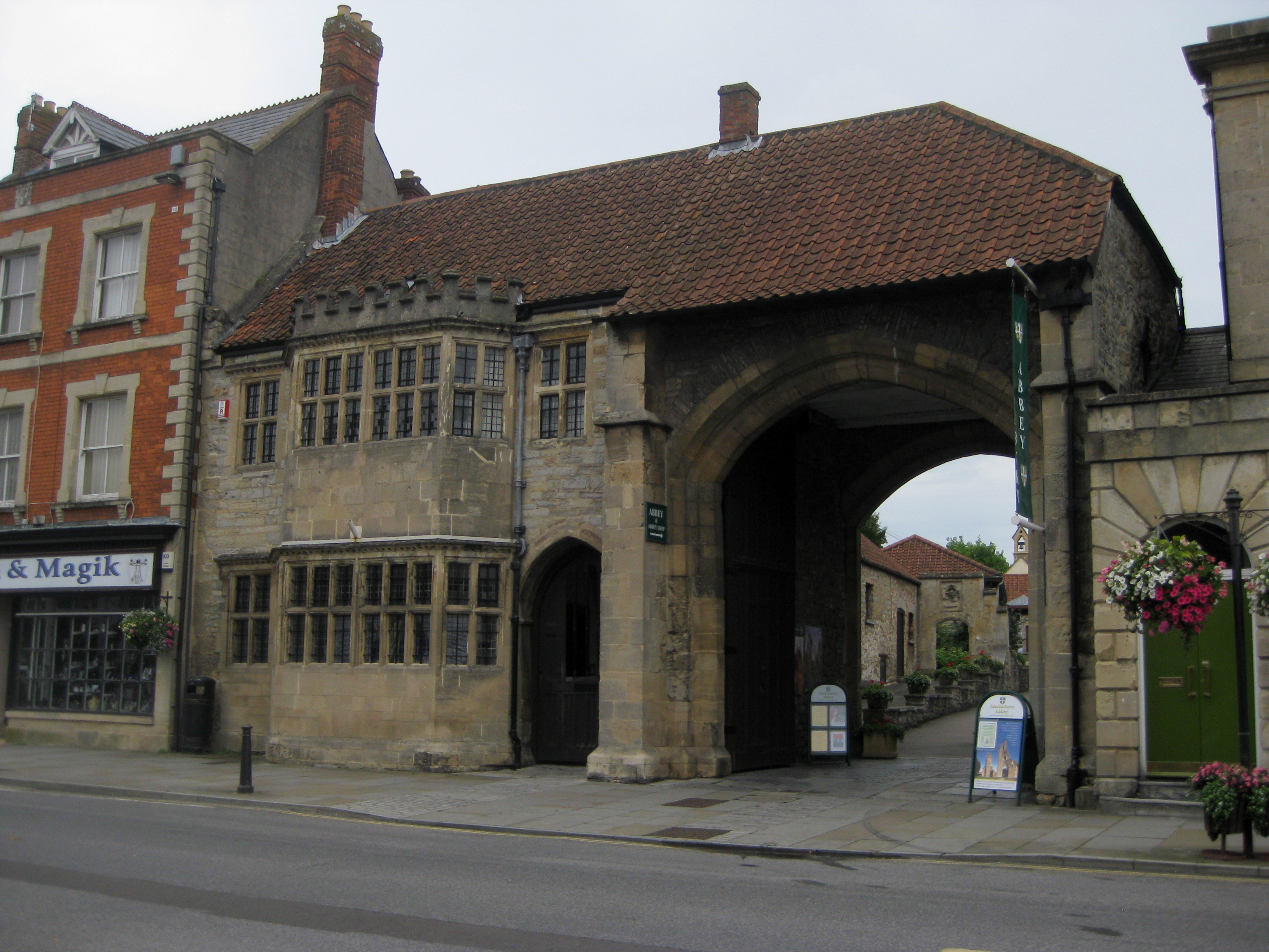 Gatehouse of Glastonbury Abbey, Glastonbury, Somerset, UK